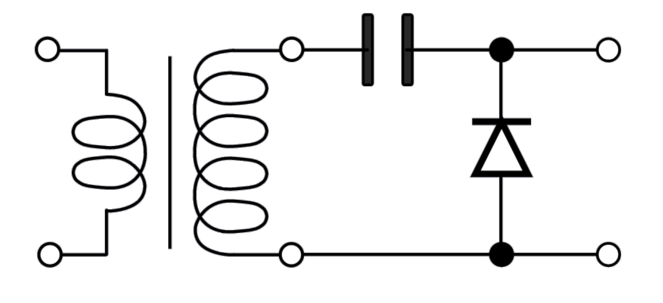 Villard circuit